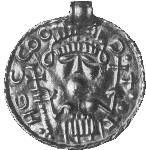 Welschingen-B bracteate (IK 389). This is one of five known "Fürstenberg type" bracteates, showing a female figure interpreted as the goddess . The bracteates are IK 259 (Großfahner-B), IK 311 (Oberwerschen-B), IK 350 (site of discovery unknown, reportedly from "south-western Germany"), IK 389 (Welschingen-B), IK 391 (Gudme II-B) Literature: M. J. Enright, The Goddess Who Weaves. Some Iconographic Aspects of Bracteates of the Fürstenberg Type. In: FMSt 24, 1990, S. 54–70; Alexandra Pesch, Die Goldbrakteaten der Völkerwanderungszeit: Thema und Variation, Walter de Gruyter, 2007 ISBN 978-3-11-020110-9, pp. 125–128.